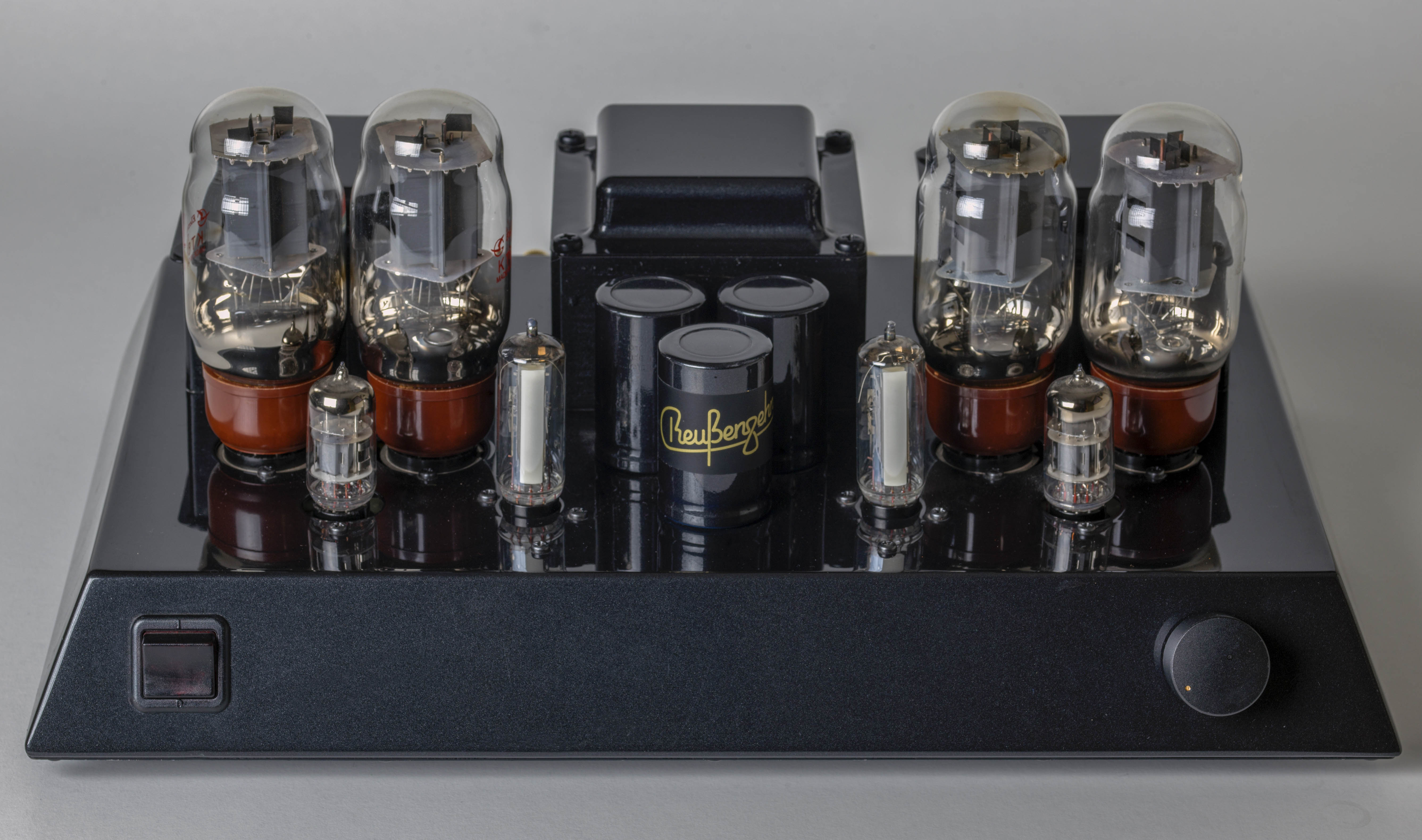 Tube amplifier Tube 66 - manufactured by Reußenzehn in the 1990th